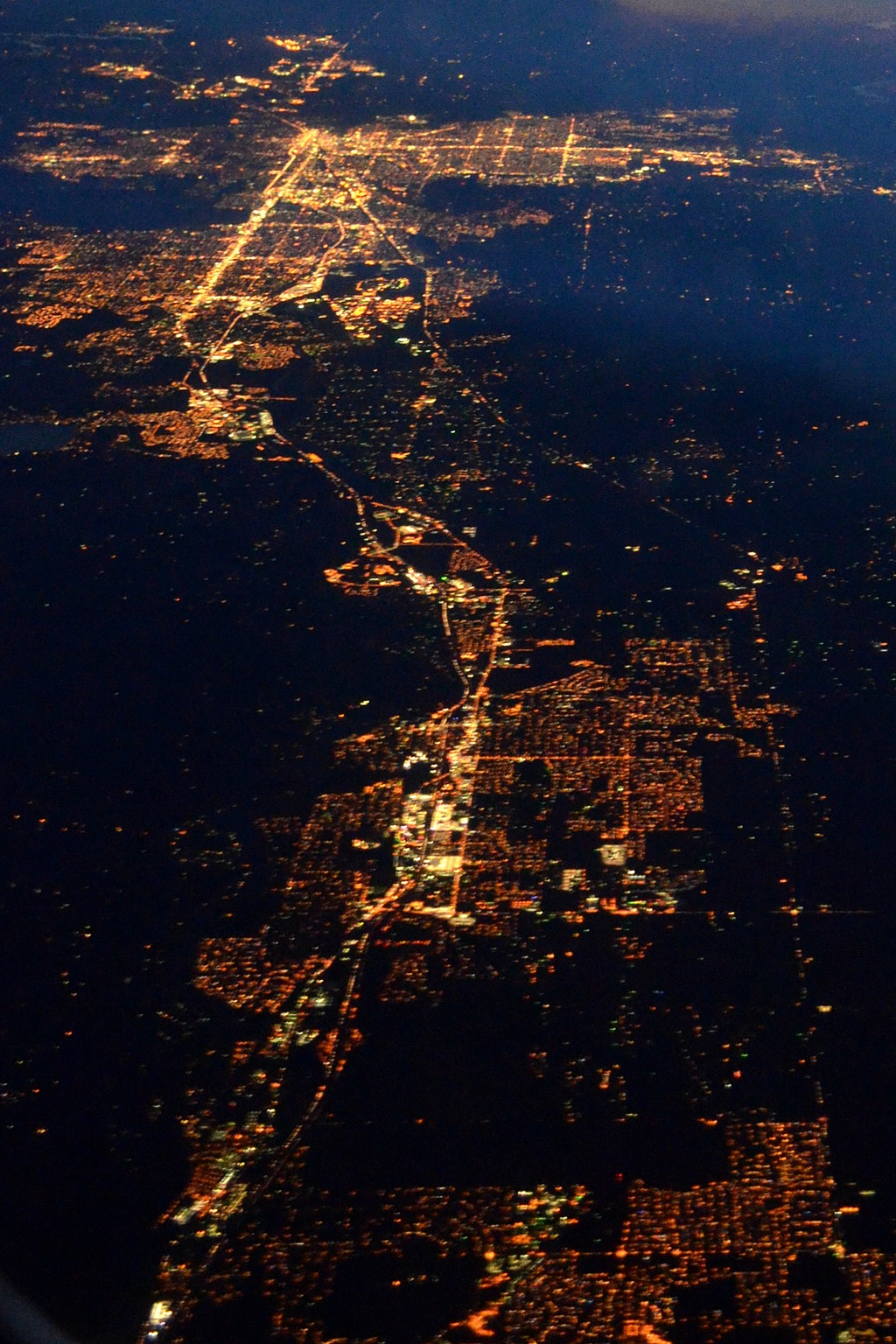 Night aerial view of Coeur d'Alene & Post Falls (foreground), and Spokane and Spokane Valley (background), looking west in December 2014.